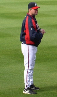 Roger McDowell 04:13, 15 May 2007 . . Chrisjnelson . . 190×325 (91,175 bytes)